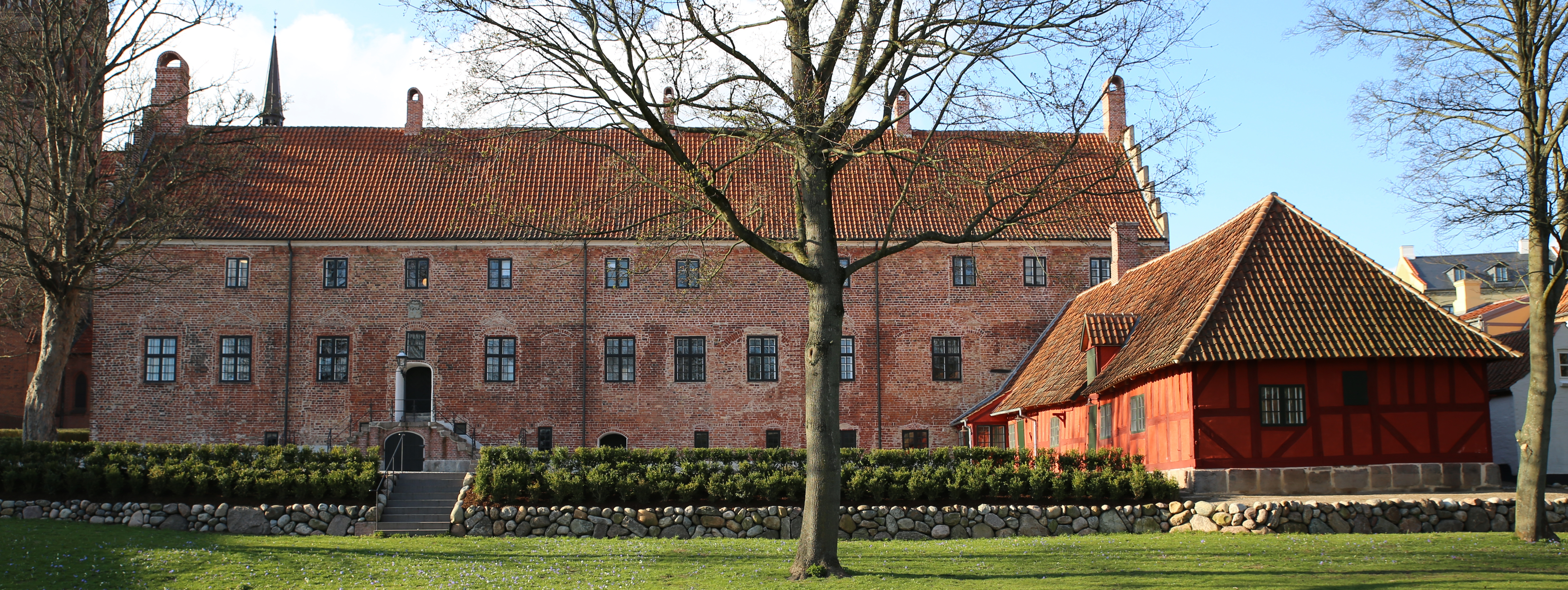 Odense Adelige Jomfrukloster (Odense Convent of Noble Maidens).